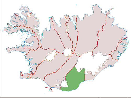 A map of the county Vestur-Skaftafellssýsla in Iceland. Based on a map from the National Land Survey of Iceland. No copyright protedtion on the original map. "Á þessari síðu eru sett fram nokkur kort sem heimilt er að nota í ýmsum tilgangi, án sérstaks leyfis frá stofnuninni. Fleiri kort munu bætast við á næstunni. Smelltu á kortið og þú færð upp stærri mynd.